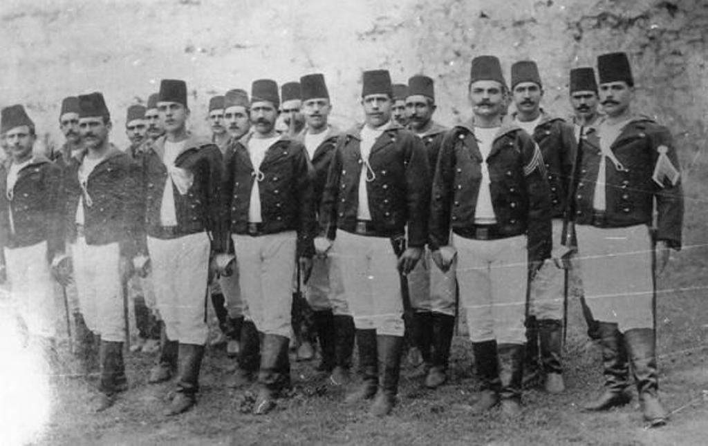 Ottoman naval infantrymen during the reign of Abdul Hamid II